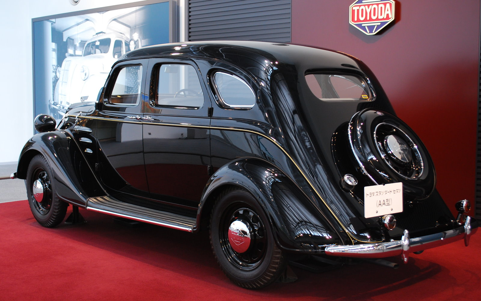 Toyoda Model AA